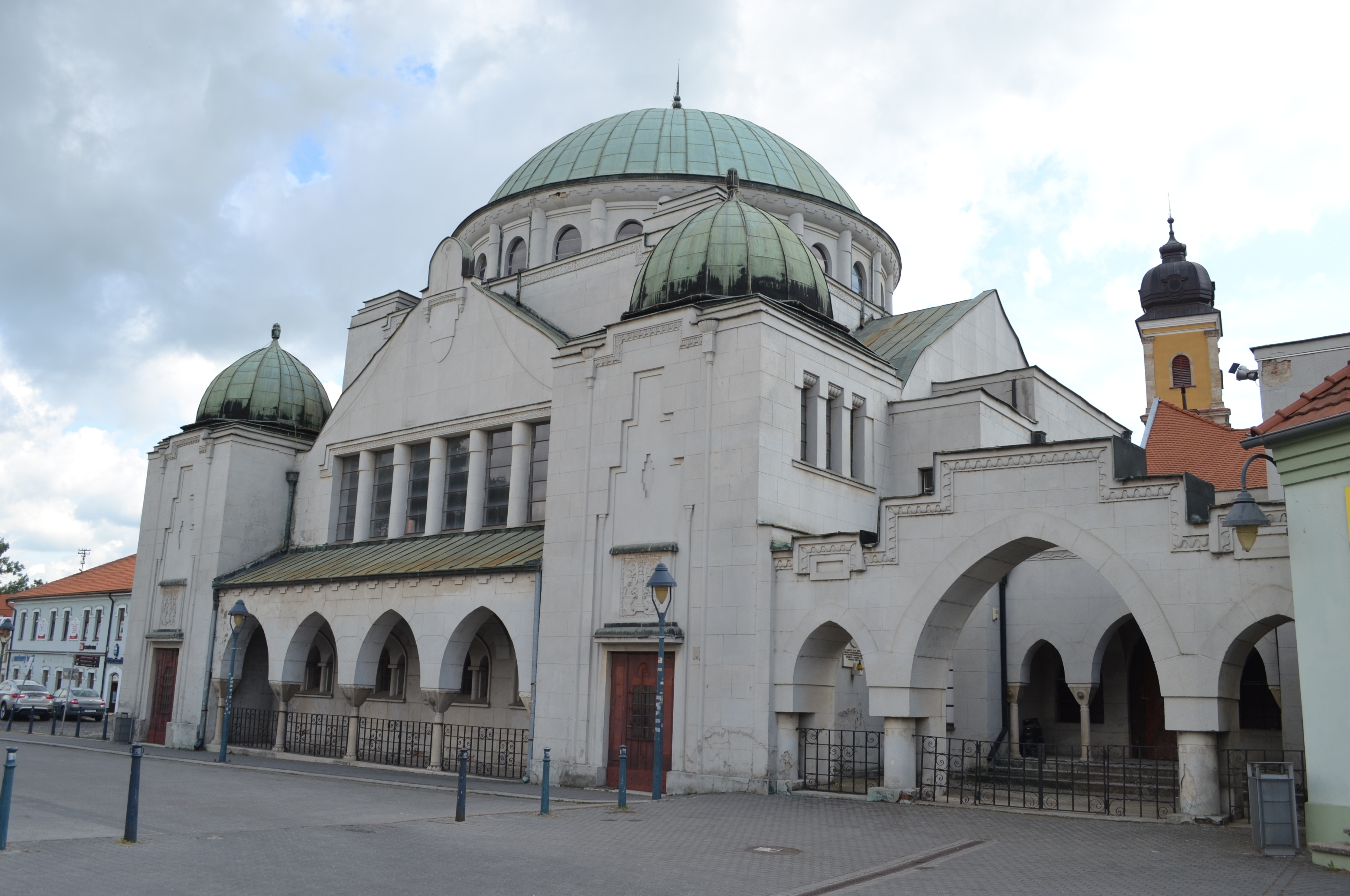 Synagogue and former Jewish school in Trenčín